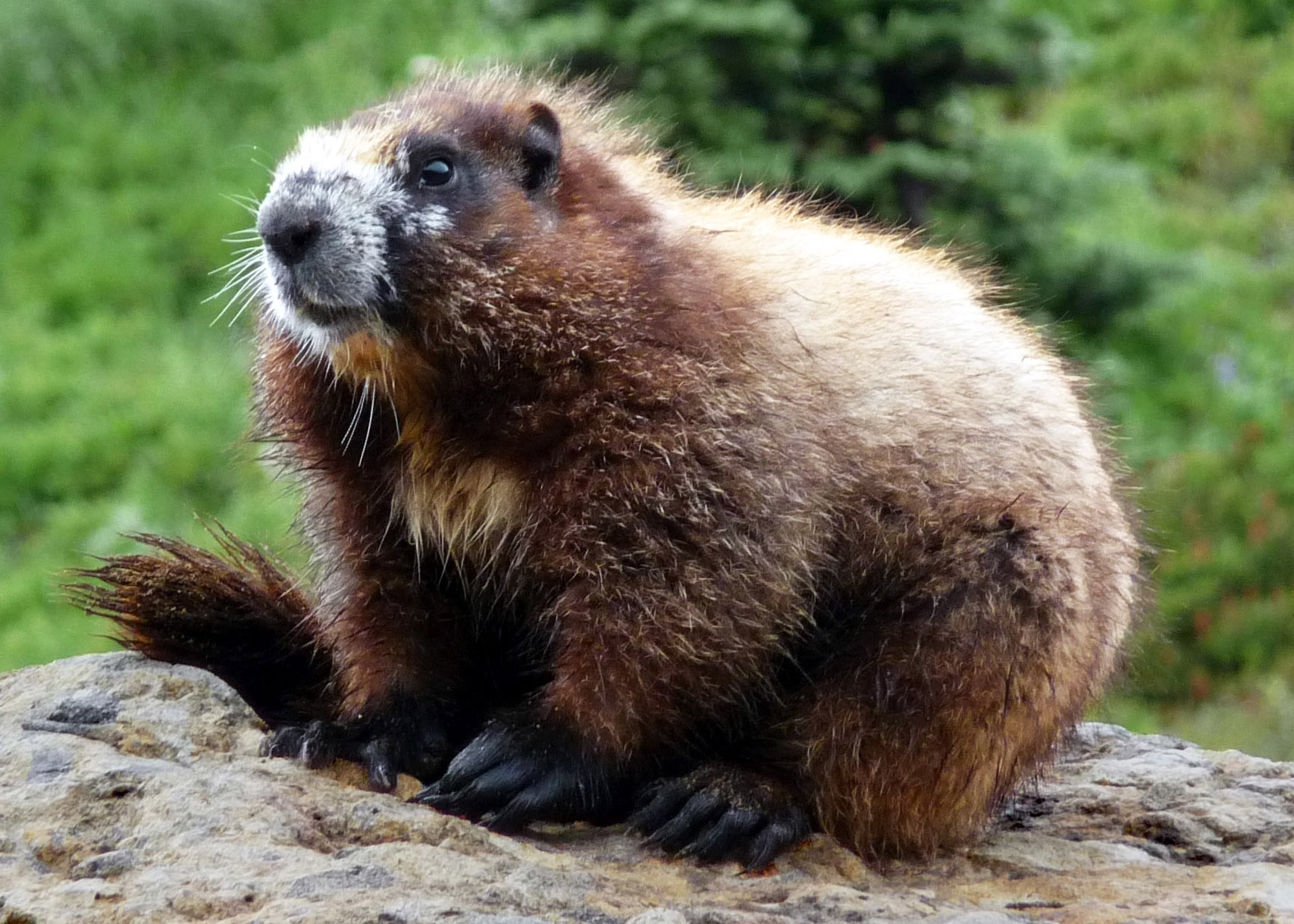 Hoary Marmot at the Skyline Trail, Mount Rainier National Park.